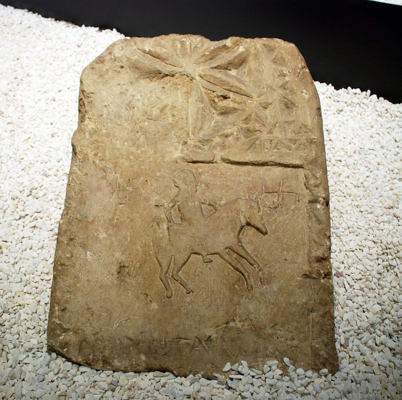 Museum of Prehistory and Archaeology of Cantabria. Stele dedicated by Emilia, Monte Cildá in Olleros de Pisuerga (Palencia, Castile and León).